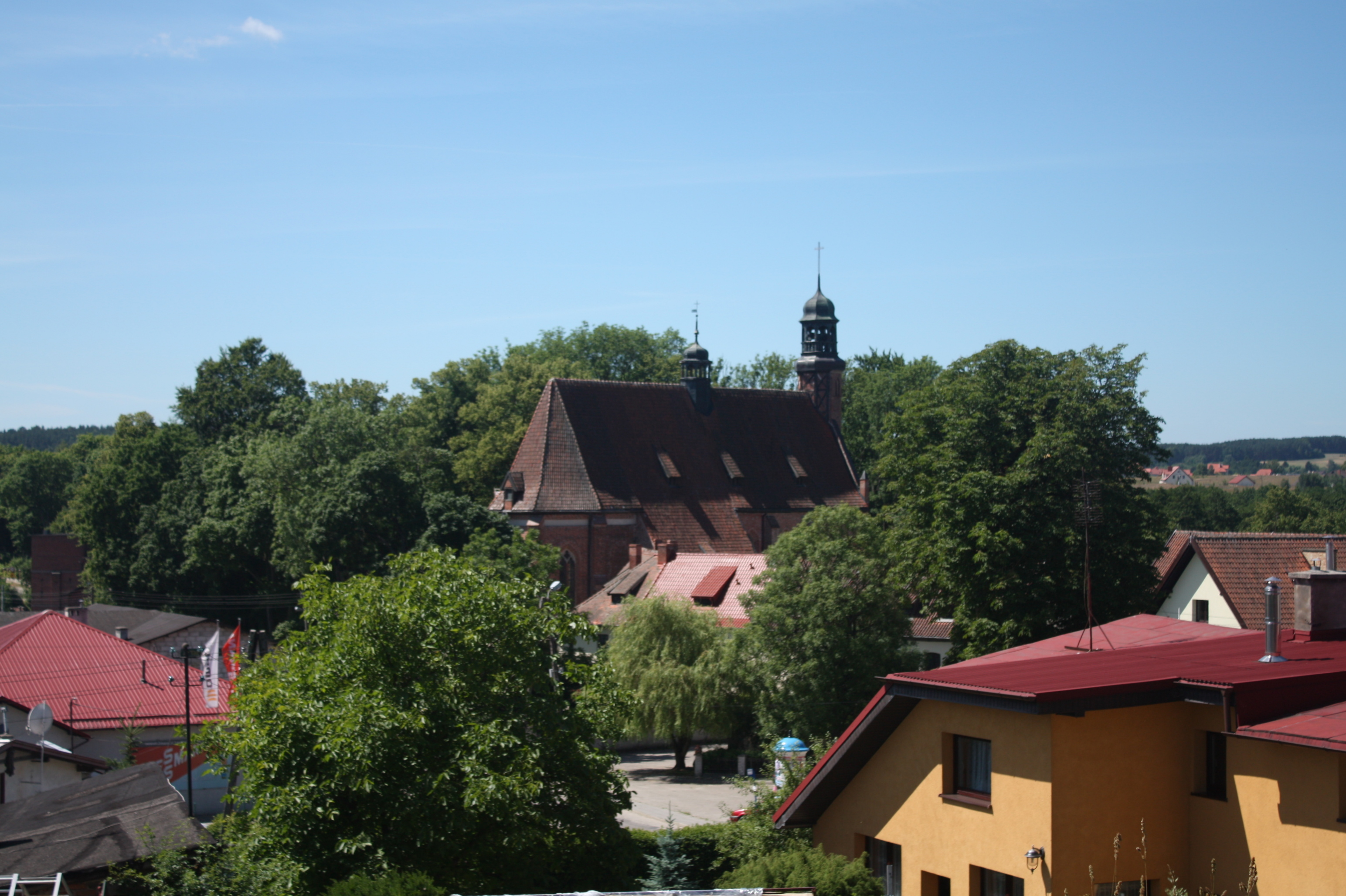 Żukowo, Church of Saint Mary of the Assumption